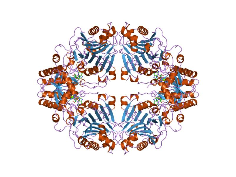 Cartoon representation of the molecular structure of protein registered with 1ecb code.